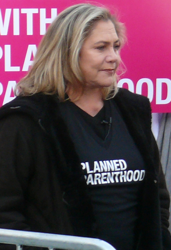 Kathleen Turner at the Planned Parenthood Rally in New York City. Find out why people were protesting from Women's eNews.